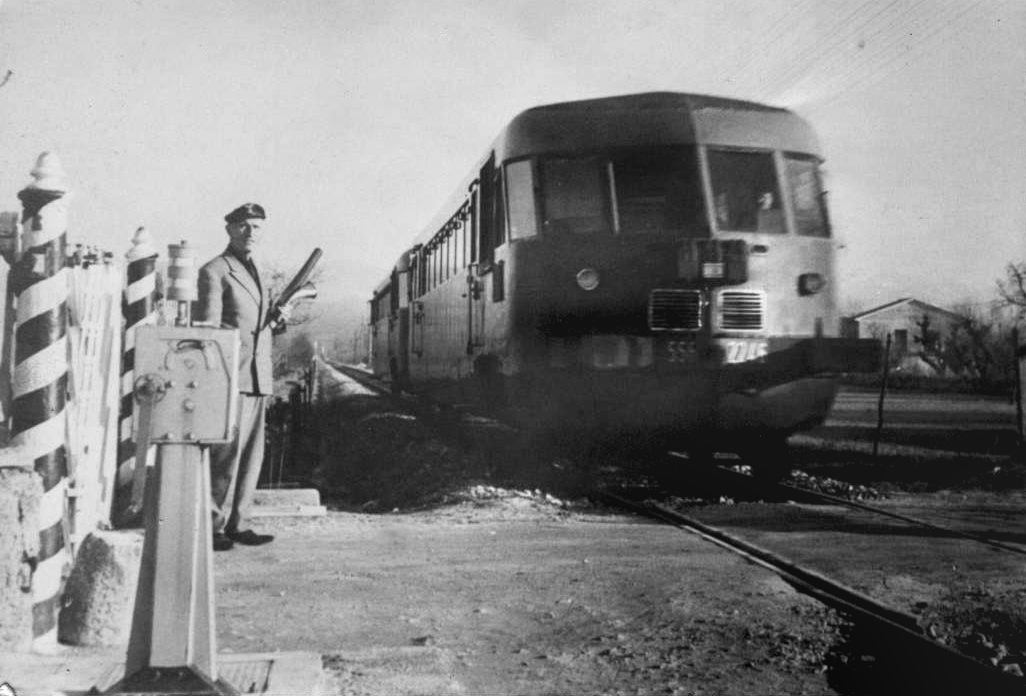 ALn 556.2245 in Onna, (L'Aquila, Italy). Railway crossing warden Lorenzo Chiavelli standing at the side. Uploaded with permissions of the heirs.